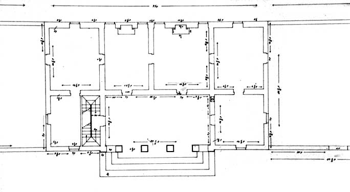 Villa Arnaldi in Meledo di Sarego, Province of Vicenza. Relief by Verlato 1998. Vicenza, CISA. Digital elaboration by Marcok.